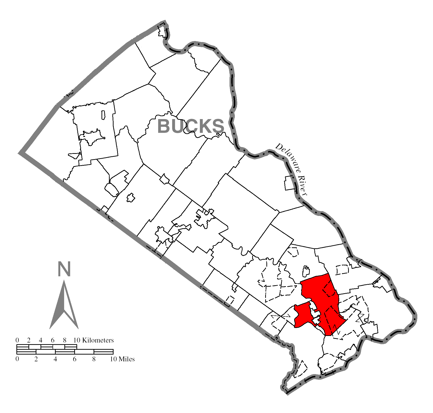 A map of Bucks County showing Middletown Township, Pennsylvania (alternate) highlighted on the map.